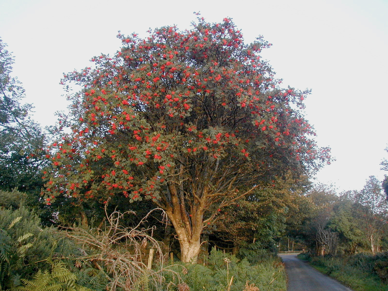 European Rowan (Sorbus aucuparia) photographed at dawn in October 2008 in Co. Wicklow in Ireland